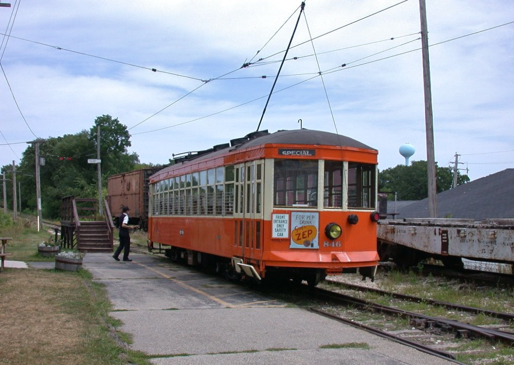 Ex-Milwaukee streetcar 846 (built in 1920 by the St. Louis Car Company) on the East Troy Electric Railroad, in East Troy, Wisconsin, in 2006.